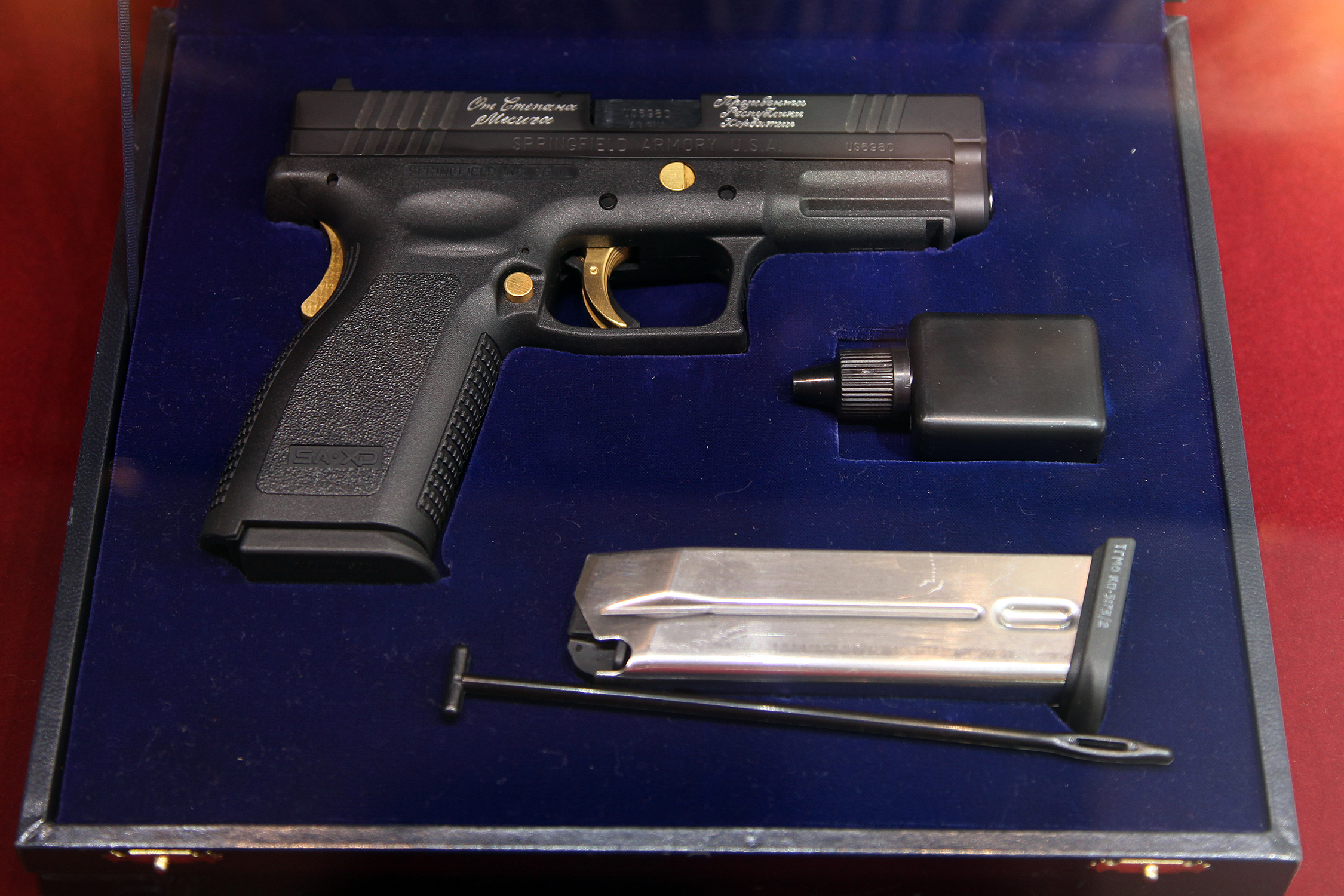 HS2000